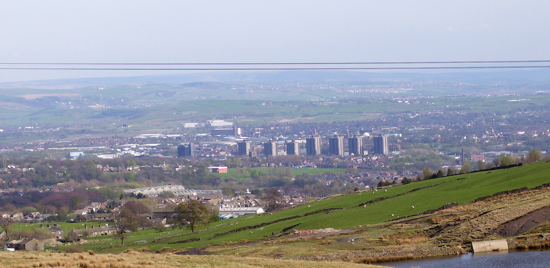 A view over Rochdale, in Greater Manchester, England.